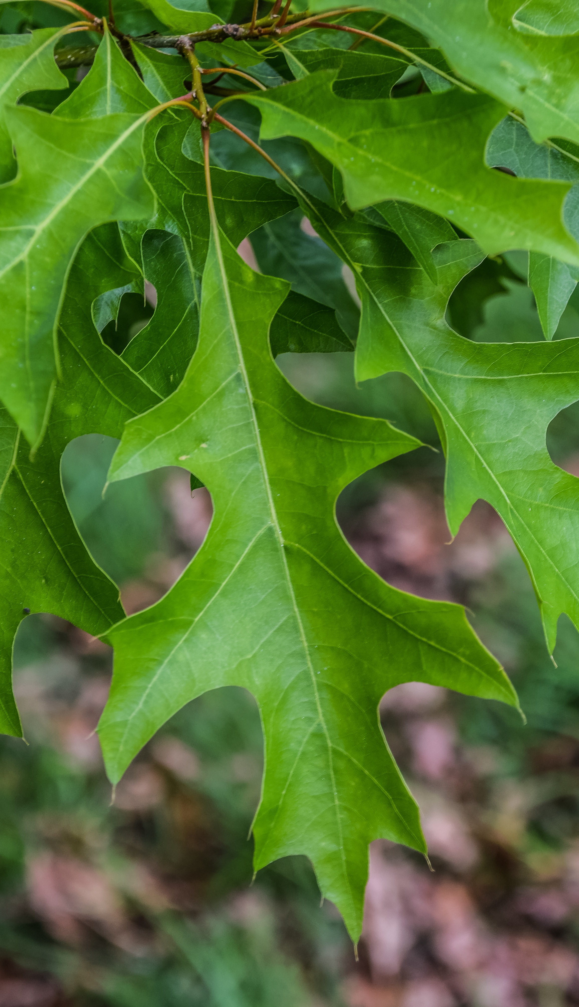 Quercus texana in Hackfalls Arboretum, Gisborne Region, New Zealand